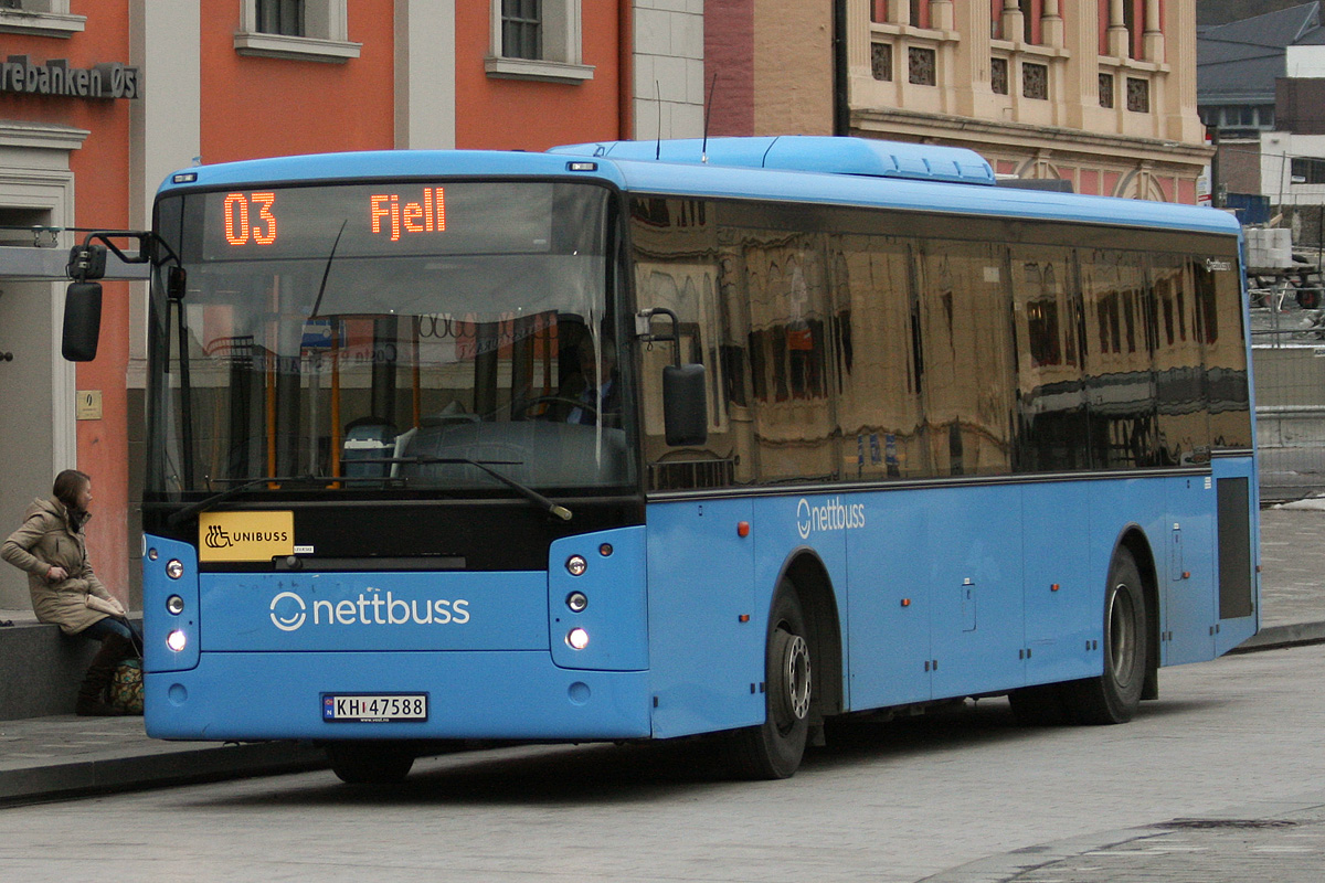 2007 Vest Center H on Volvo B7RLE on route 03 in Drammen. Part of the Unibuss project for accessibility in Drammen.